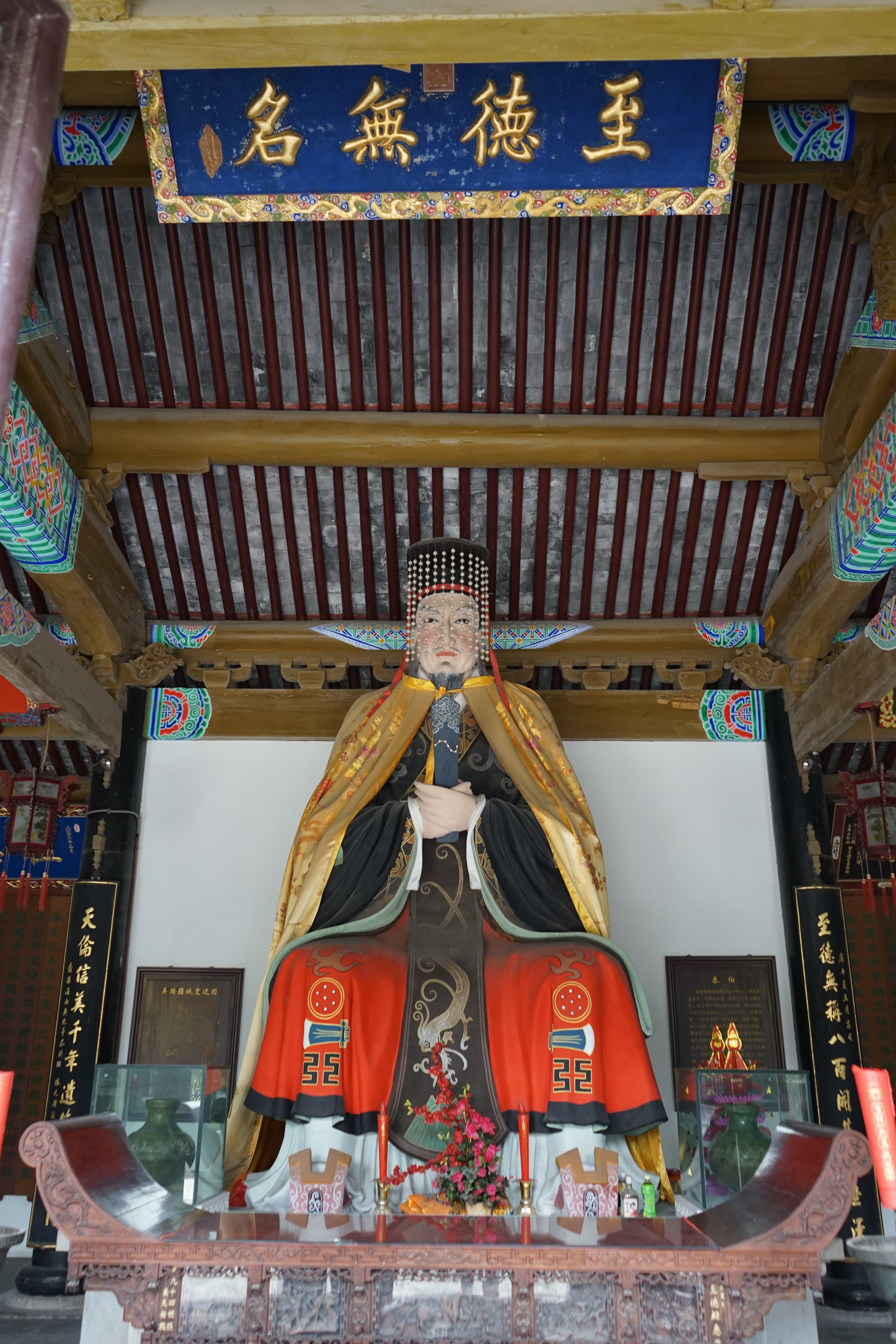 Taibo statue, in Zhide Hall